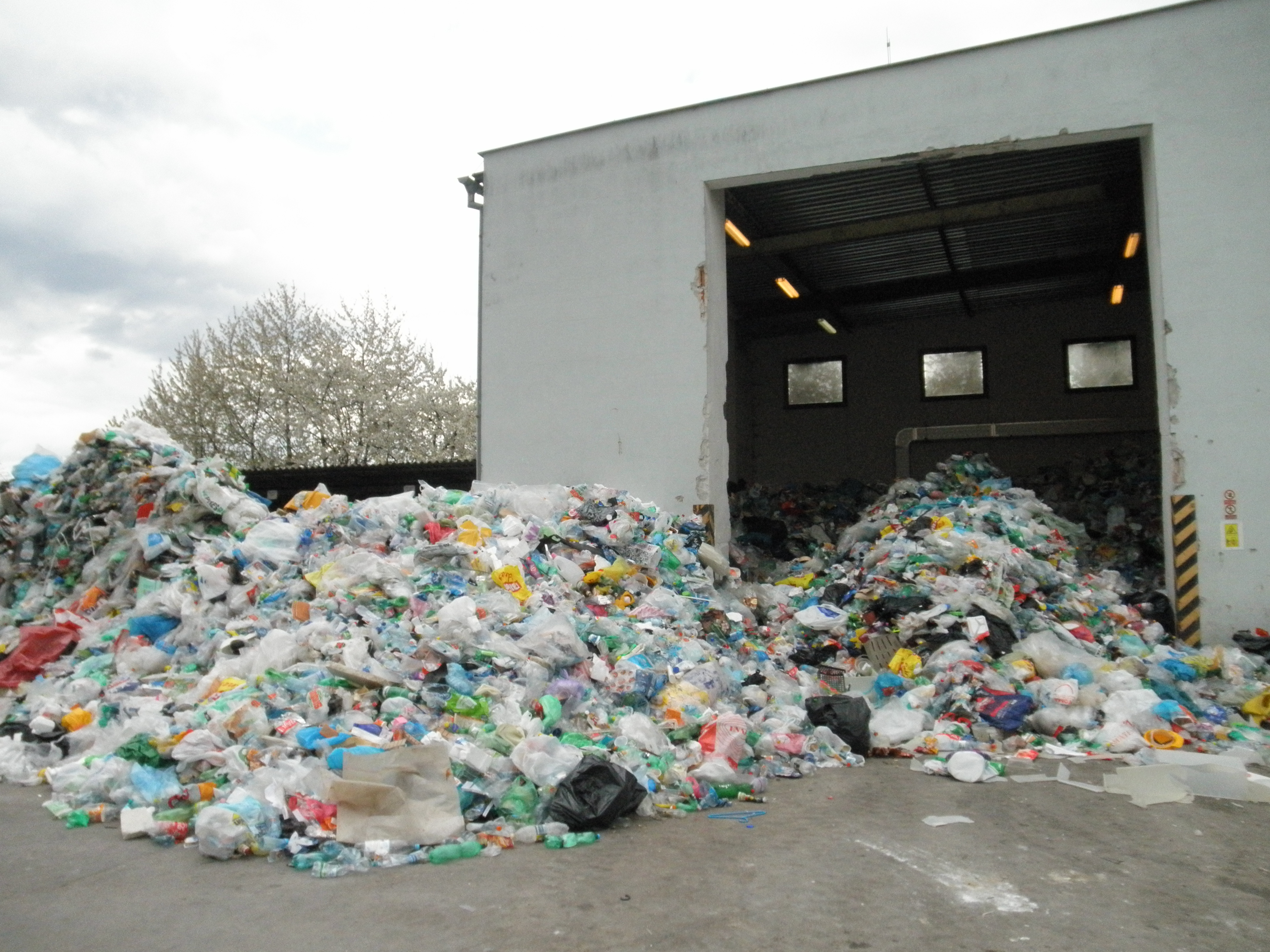 Plastics prepared for sorting in materials recovery facility. In Olomouc, the Czech Republic.